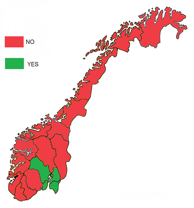 Norwegian European Union membership referendum, 1994 result by provinces. Green is YES, Red is NO